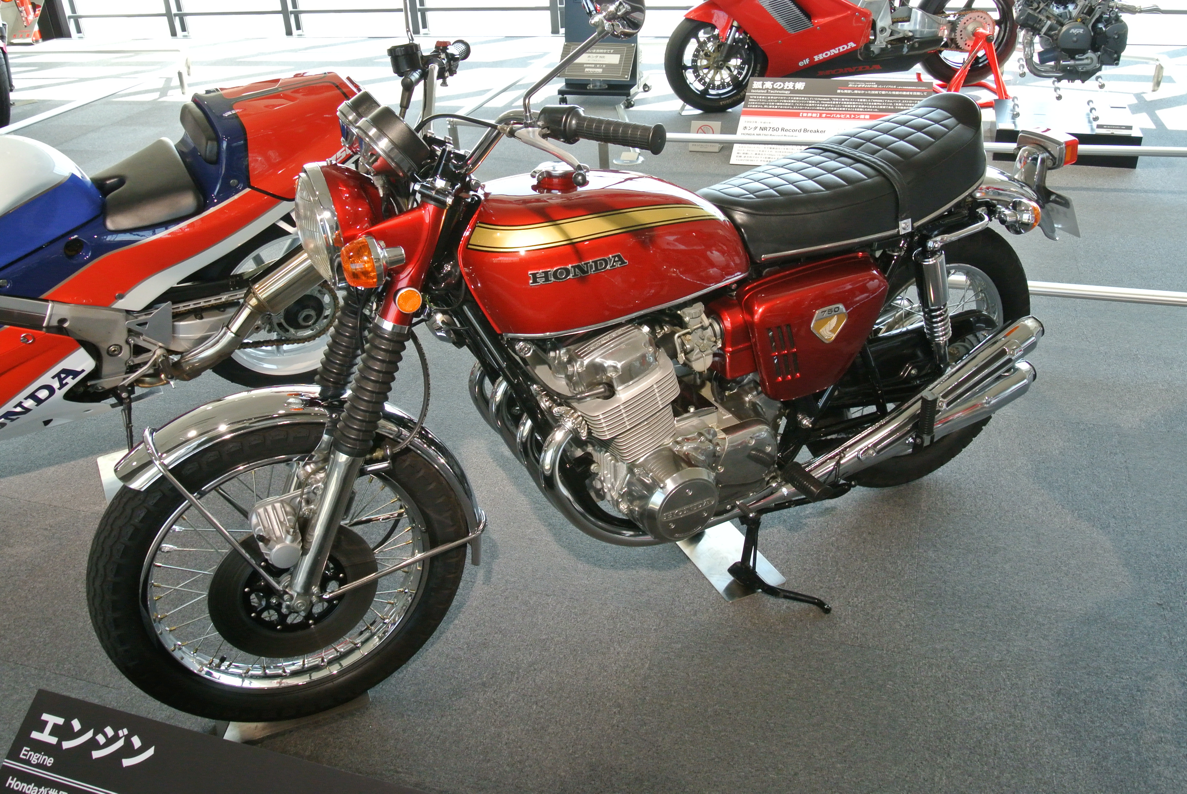 Honda Dream CB750 Four in the Honda Collection Hall.